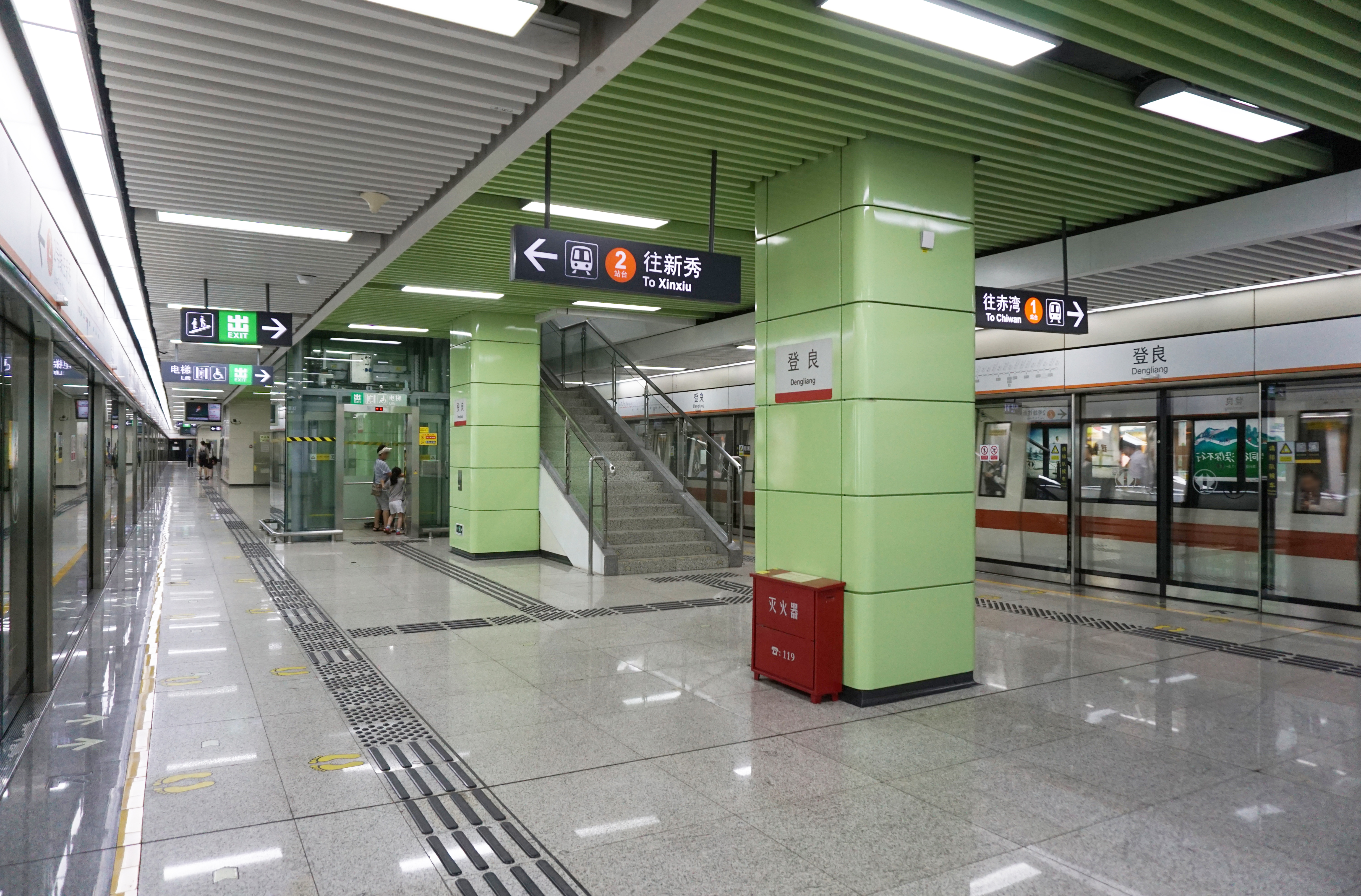 Dengliang Station in Nanshan District, Shenzhen.